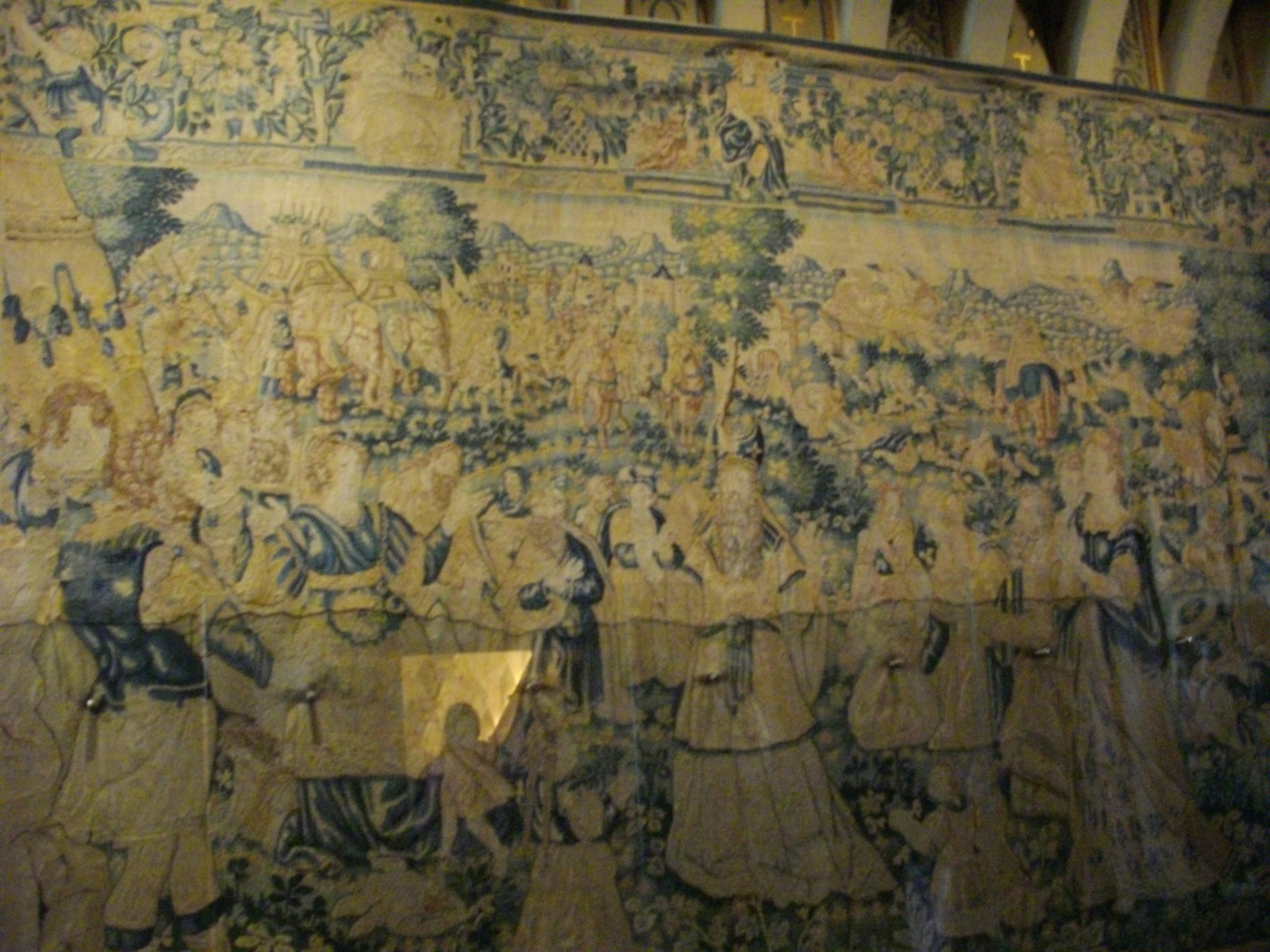 2nd floor's vestibule of the castle of Chenonceau (Indre-et-Loire, France) : tapestry of the battle of Kosovo Polje .